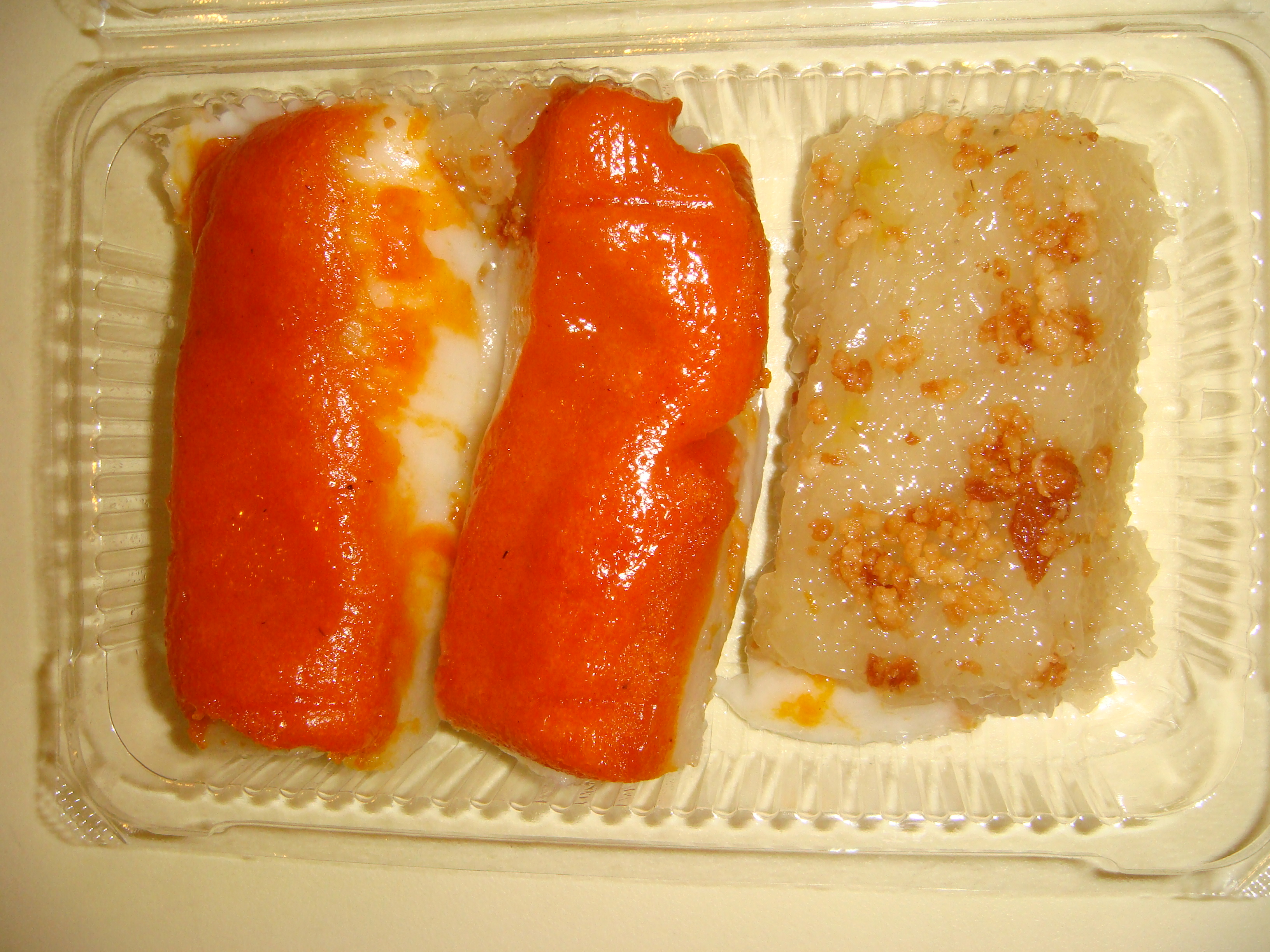 Cuchinta and biko